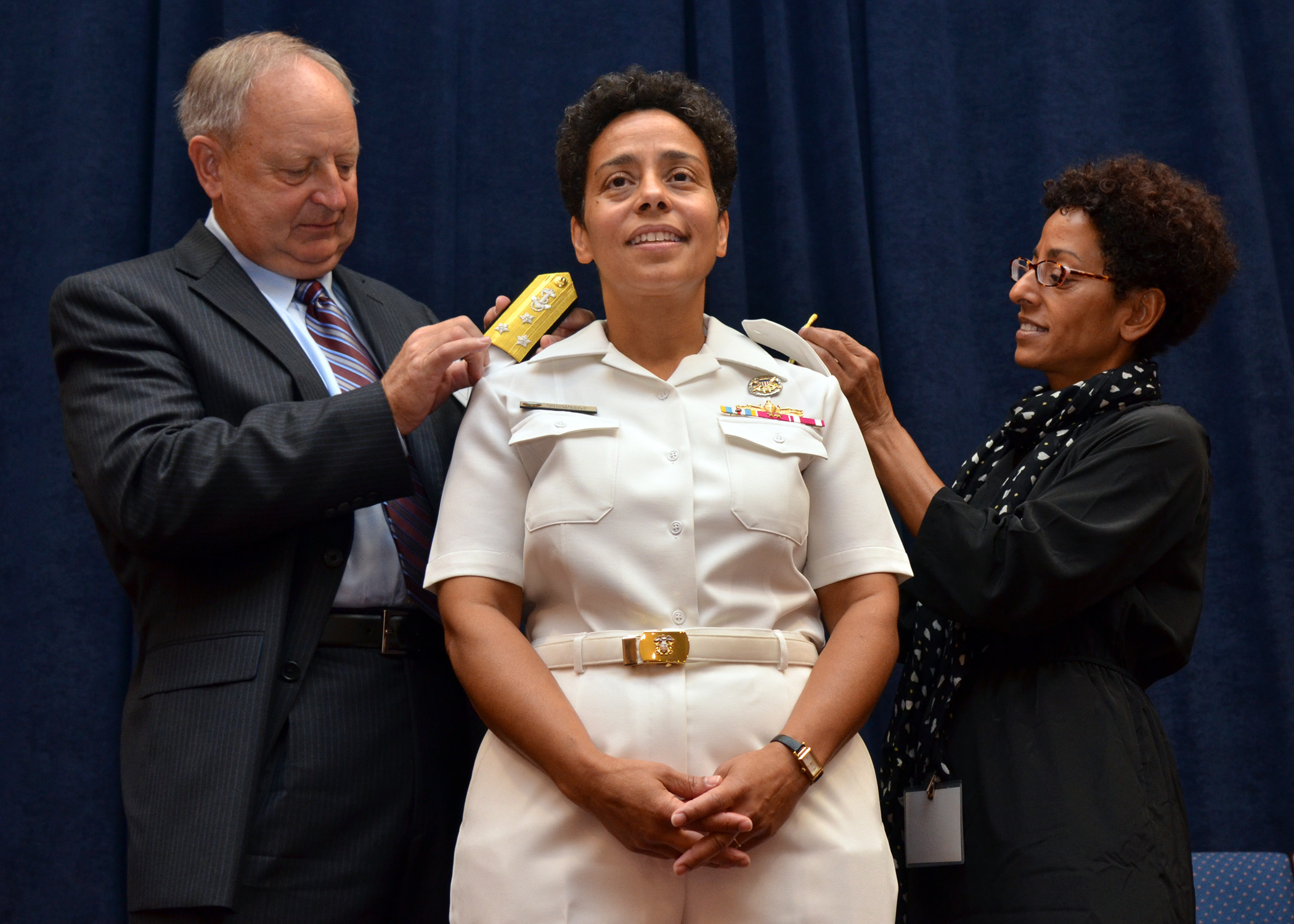 NORFOLK (Aug. 24, 2012) Vice Adm. Michelle Janine Howard, center, has her shoulder boards replaced by her husband, Wayne Cowles and her sister, Lisa Teitleman, during a promotion ceremony at Naval Support Activity Hampton Roads. Howard is the first African-American woman to receive a third star in flag rank. She assumes the duties as deputy commander of U.S. Fleet Forces Command and commander of Task Force 20. (U.S. Navy photo by Mass Communication Specialist 1st Class Rafael Martie/Released) 120824-N-QY430-030 Join the conversation navylive.dodlive.mil